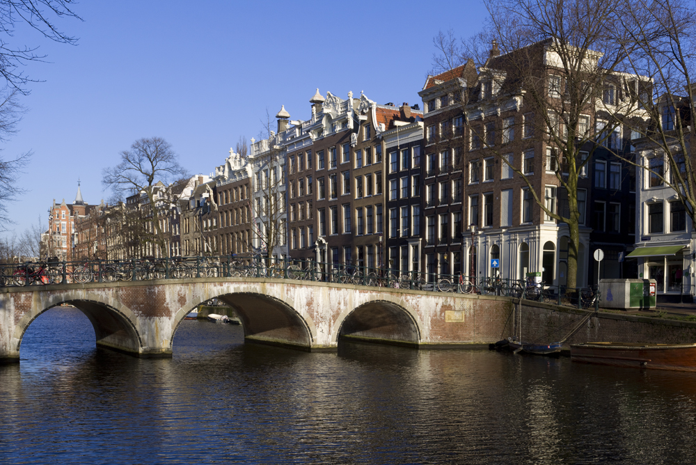 The Keizersgracht in Amsterdam, the Netherlands with its historic merchant houses and bridges.